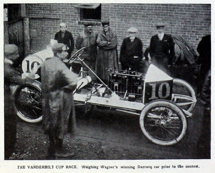 The Darracq before the start of the Vanderbilt Cup 1906. The car won the race.